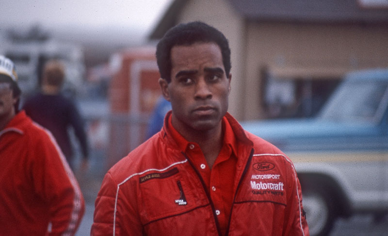 Racing driver Willy T. Ribbs, photographed at Sears Point International Raceway in 1984.